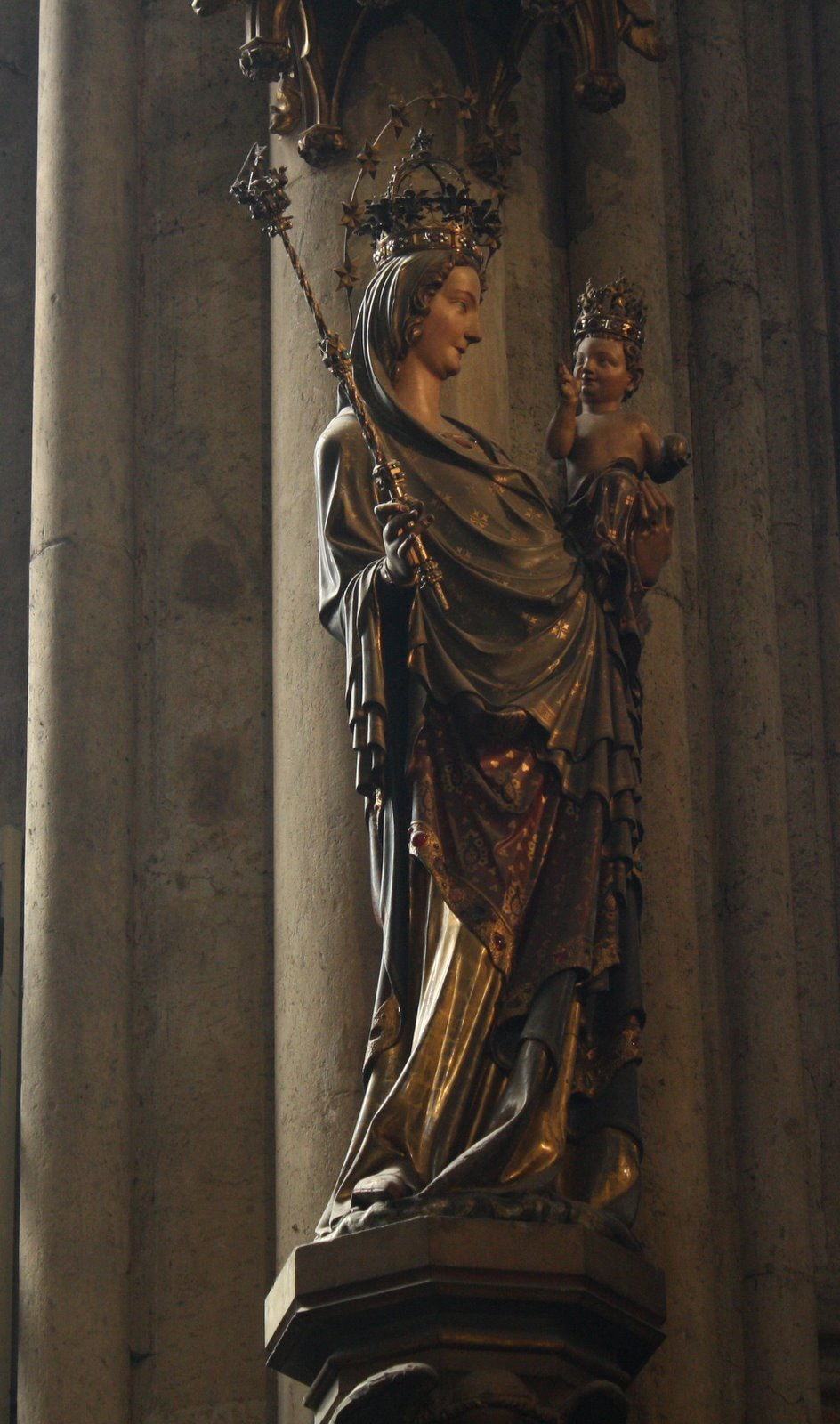 The Milan Madonna in Cologne Cathedral